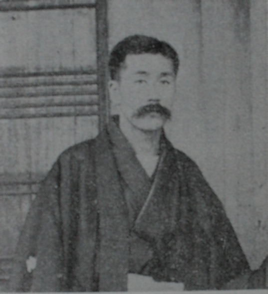 Portrait of HAMAMURA ZOROKU V(1866-1909), Japan seal engraver